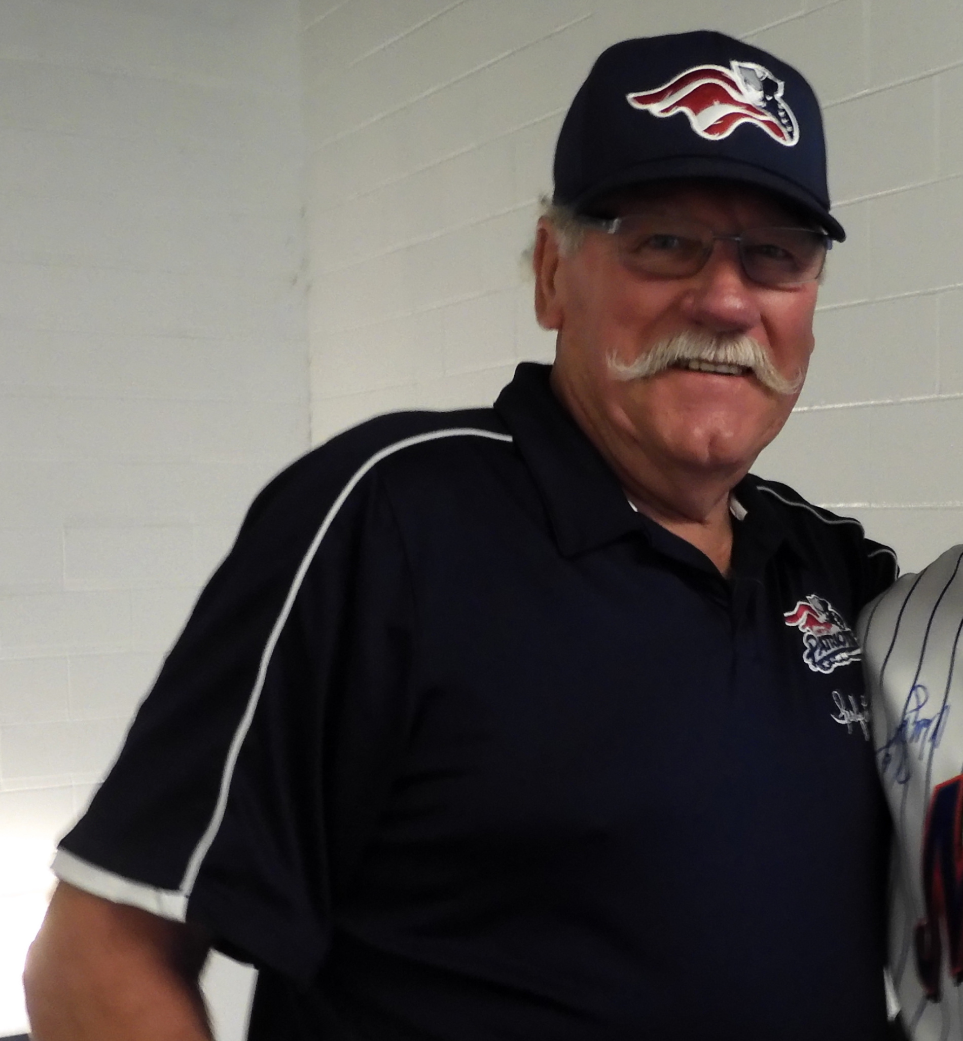 Sparky Lyle with a fan in 2019